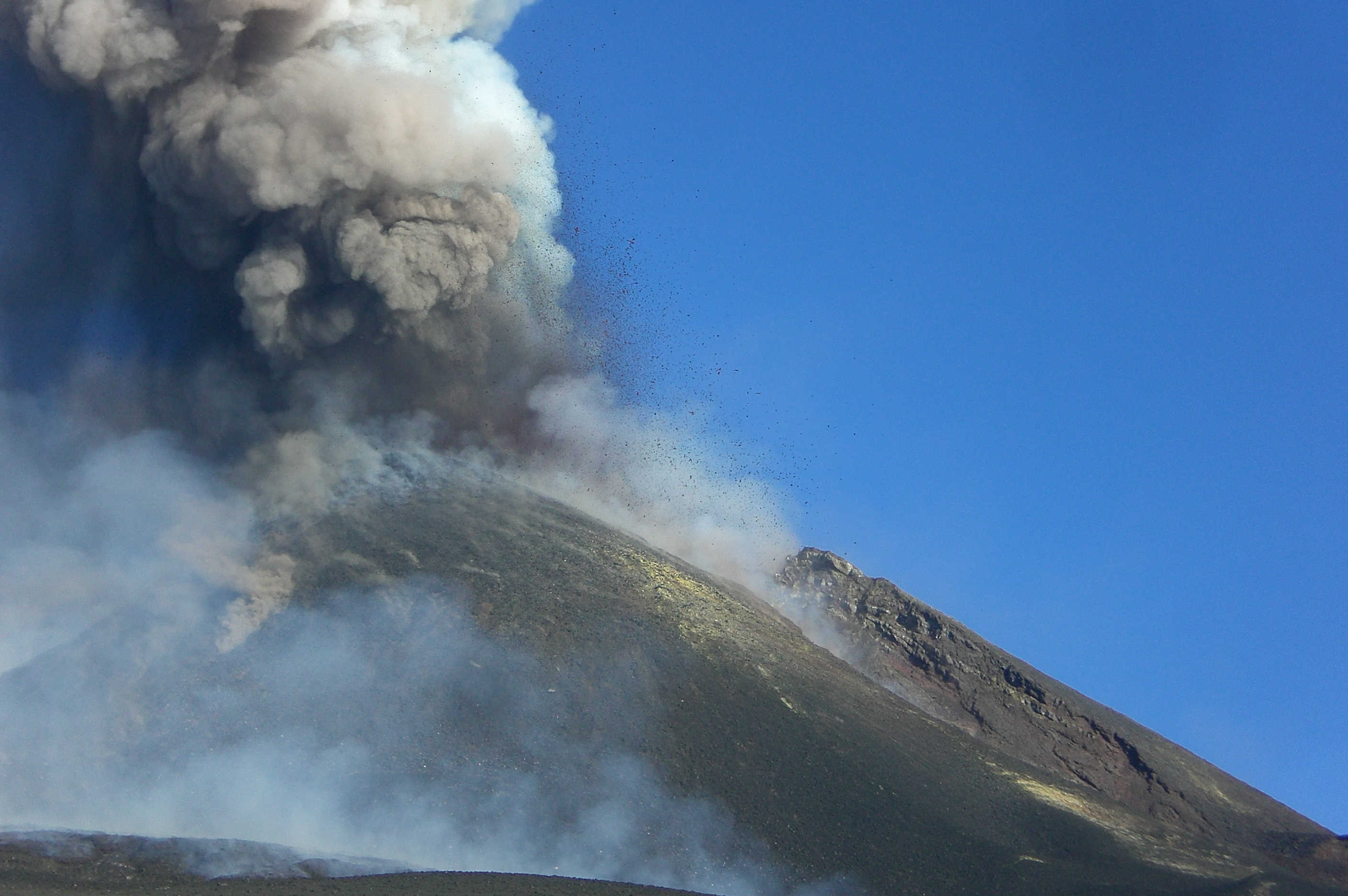 Etna Volcano Paroxysmal Eruption October 26 2013 - Creative Commons by gnuckx